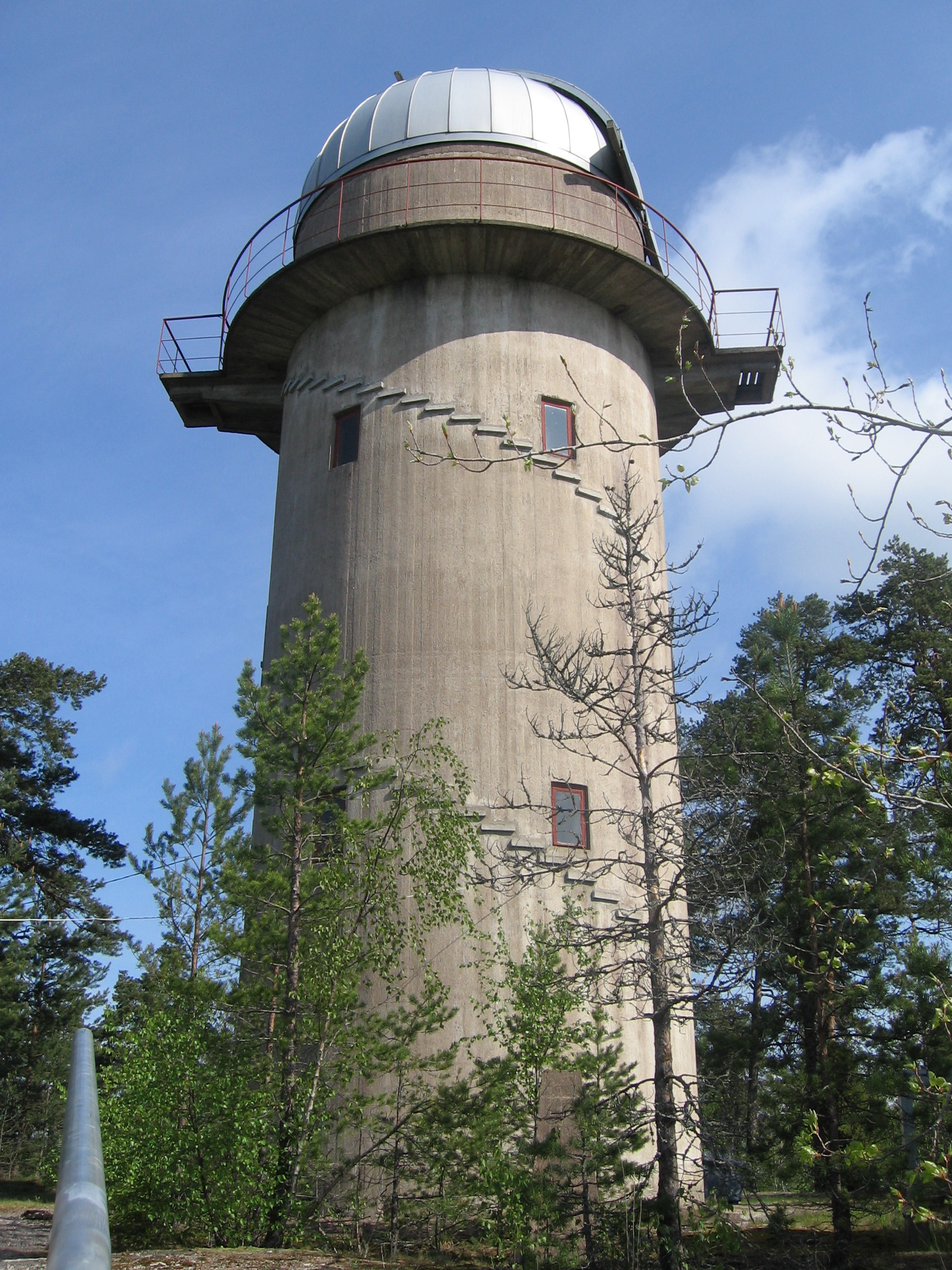 Tuorla observatory tower for 1.0m telescope